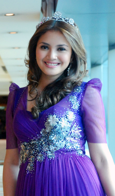 Nur Fazura at her LUX launching.